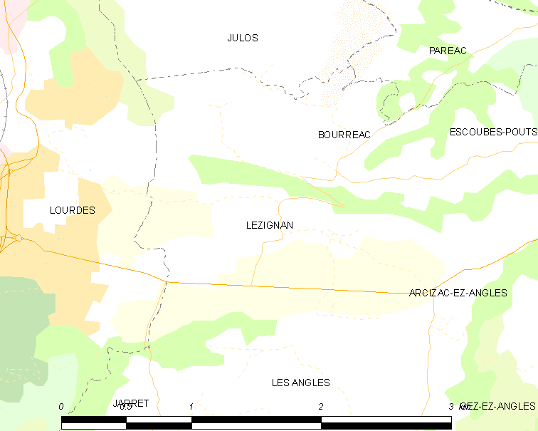 Map of French municipality